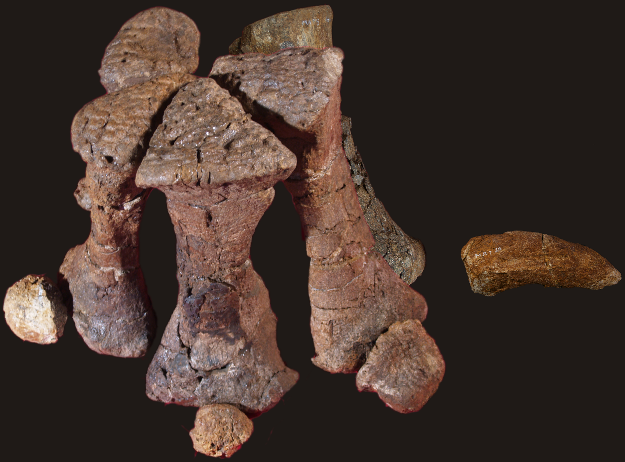 Reconstruction of the right manus of the Titanosaur Diamantinasaurus matildae in antero-external view. Specimen from the Winton Formation, Australia. Part of holotype-specimen (specimen number AODF 603).